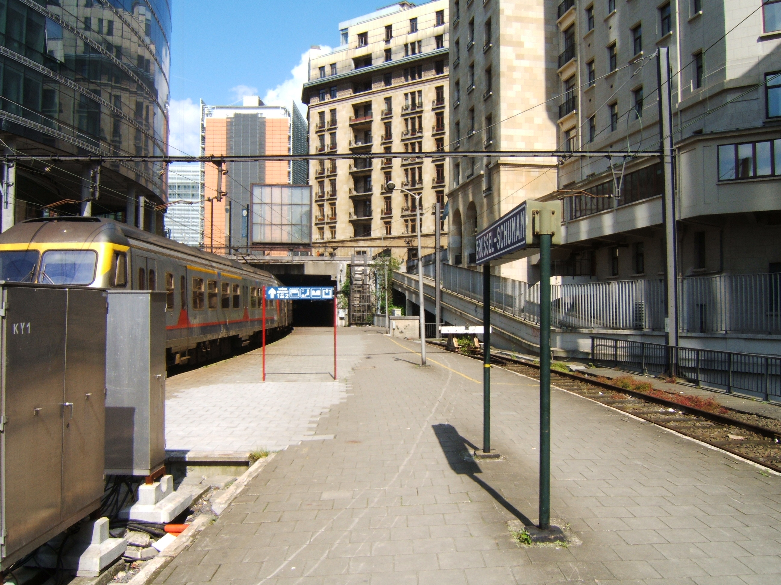 Tunnel entrance to Schuman station in Brussels. You are looking in the direction off the new to build tunnel to Meiser for the GEN project. Unclear is how the line wil dive under the building to the right. The terminating track and platform wil be reused for the new line. This has now been demolished.